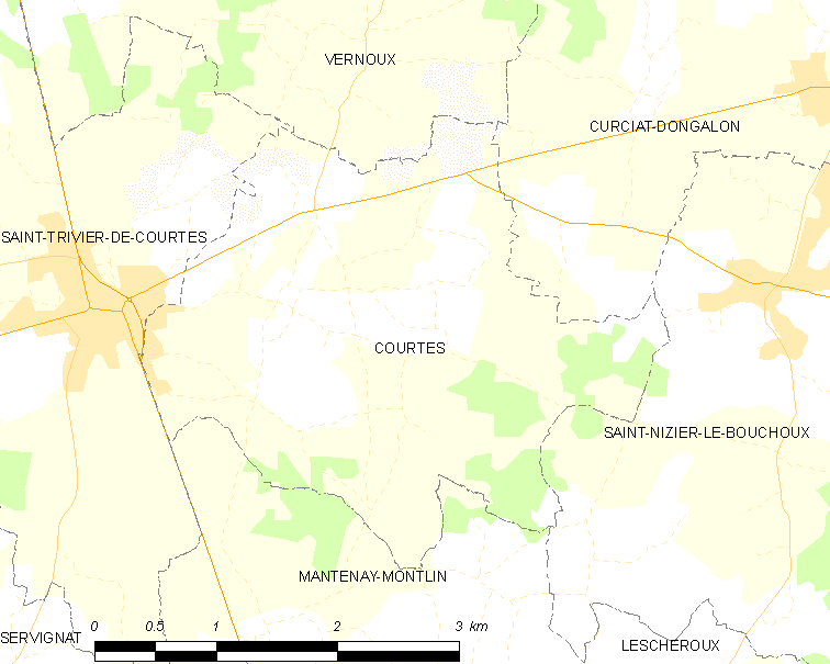 Map of French commune: Courtes Map commune FR insee code 01128.png